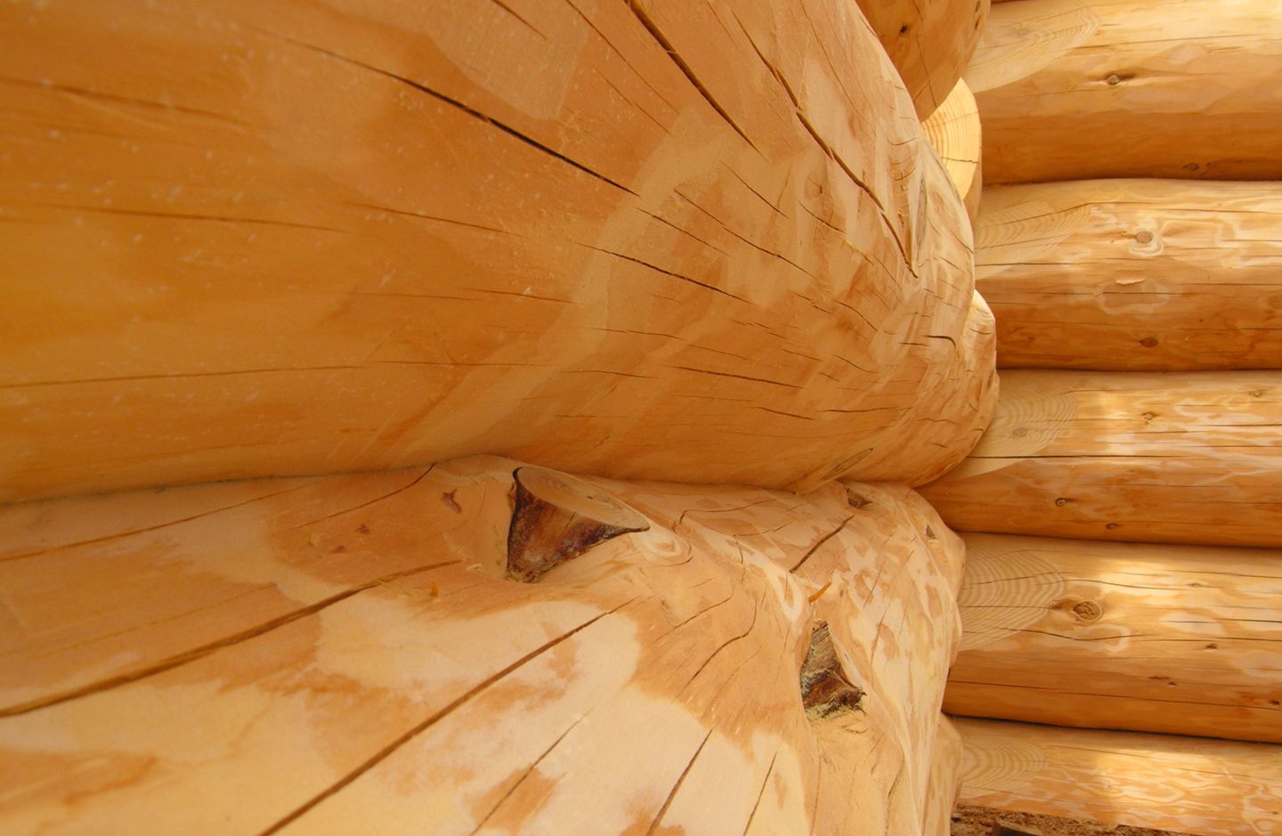 Author: Robert W. Chambers, 2008 Source: author's photo of scribe-fit logwork by Natural Log Homes